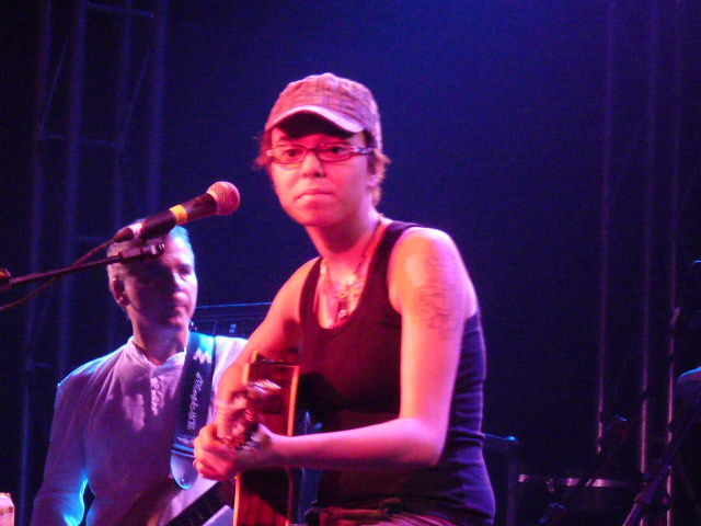 Brazilian singer Maria Gadú singing in Porto Alegre.